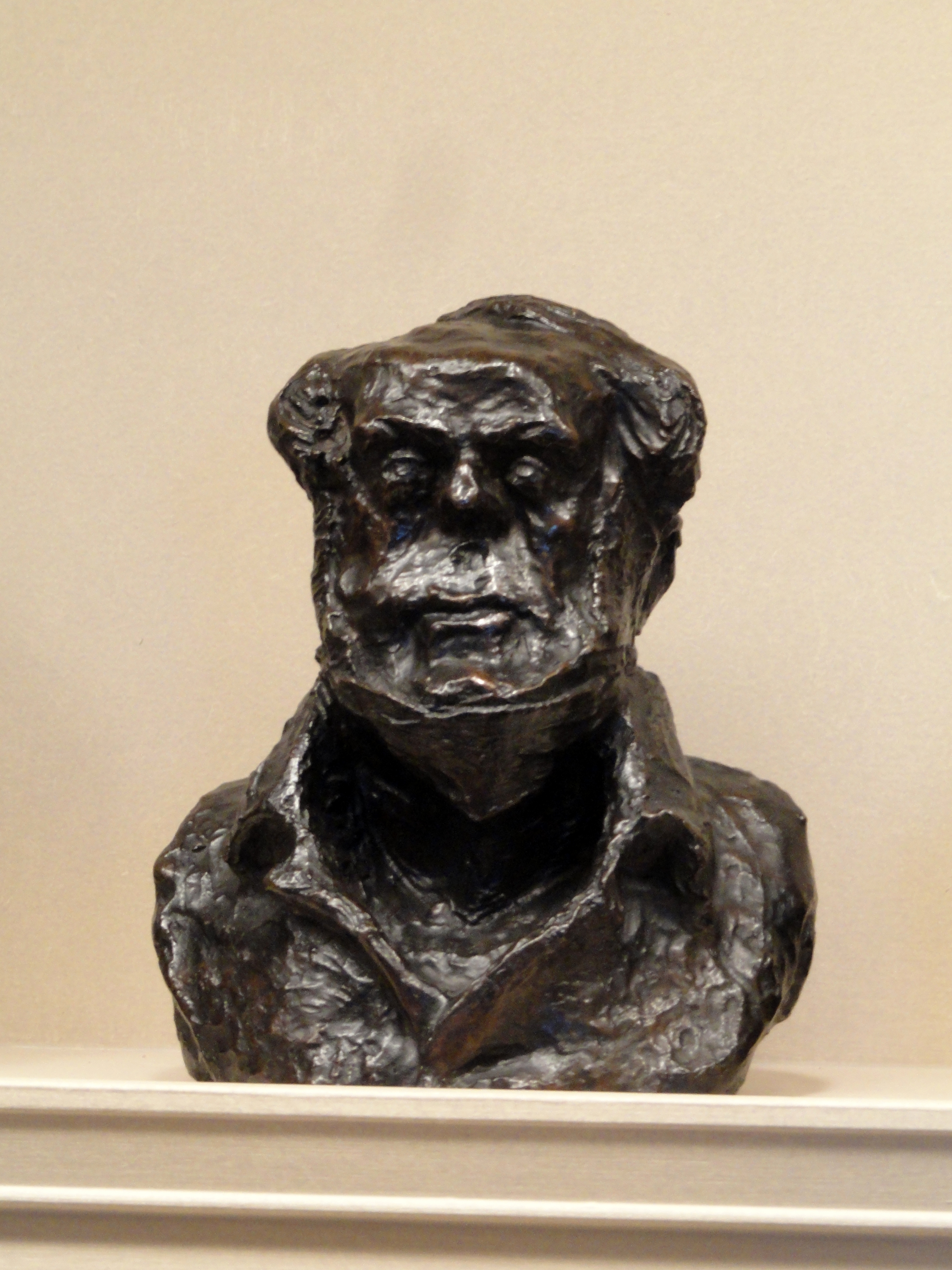 Jean Vatout by Honoré Daumier - National Gallery of Art, Washington, DC, USA. This artwork is in the public domain because the sculptor died more than 70 years ago.